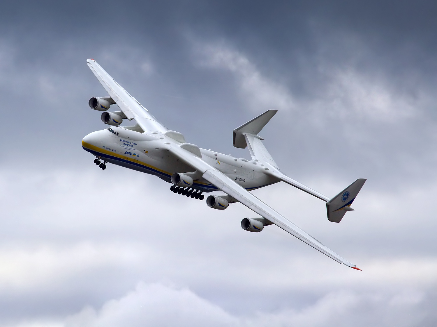 Her visual approach is always breathtaking...